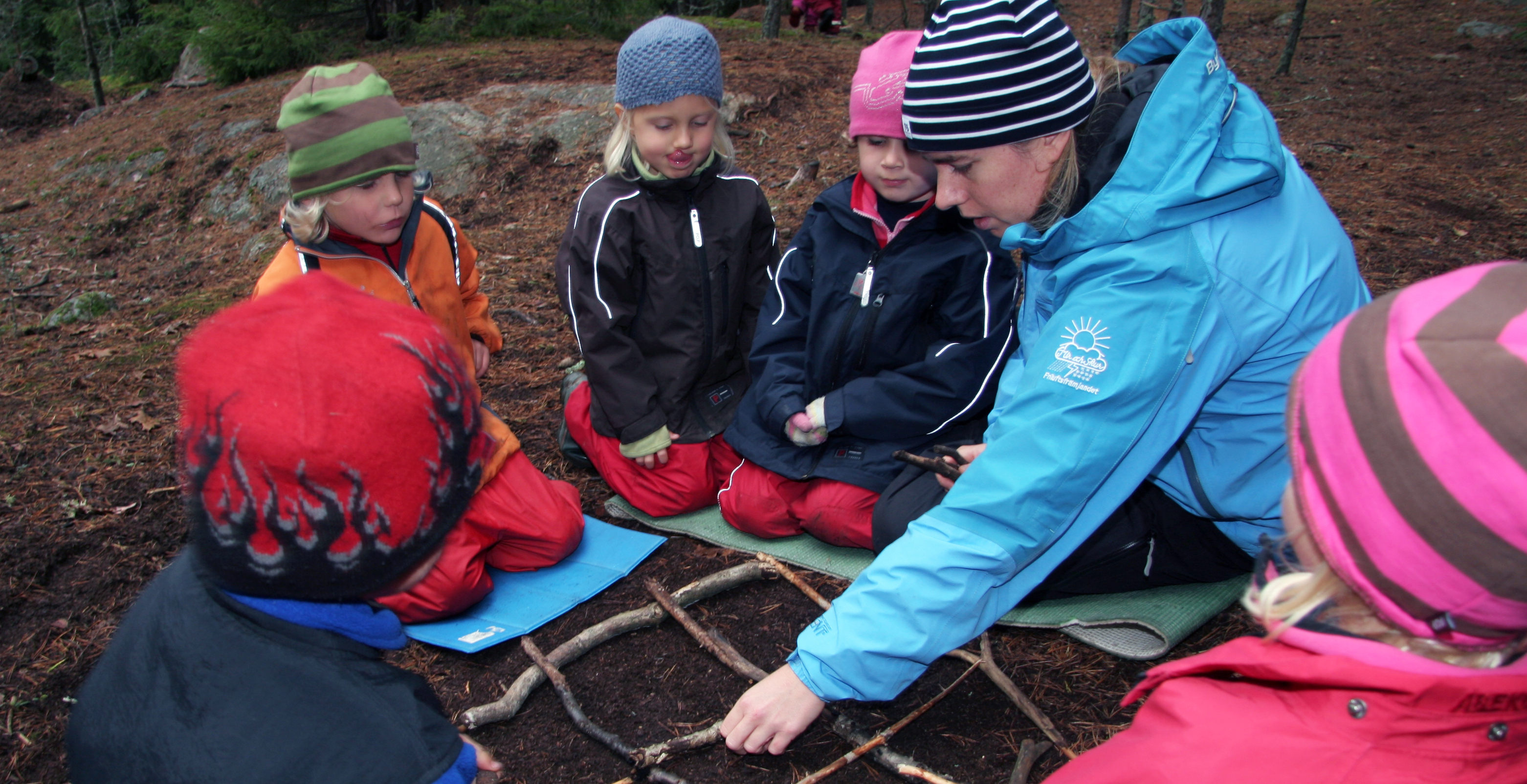 Children and Young Adults, Nature, Nature and Environment Prize